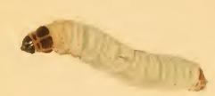 Stainton’s Natural History of the Tineina (1855–1873): Glyphipterix haworthana larva